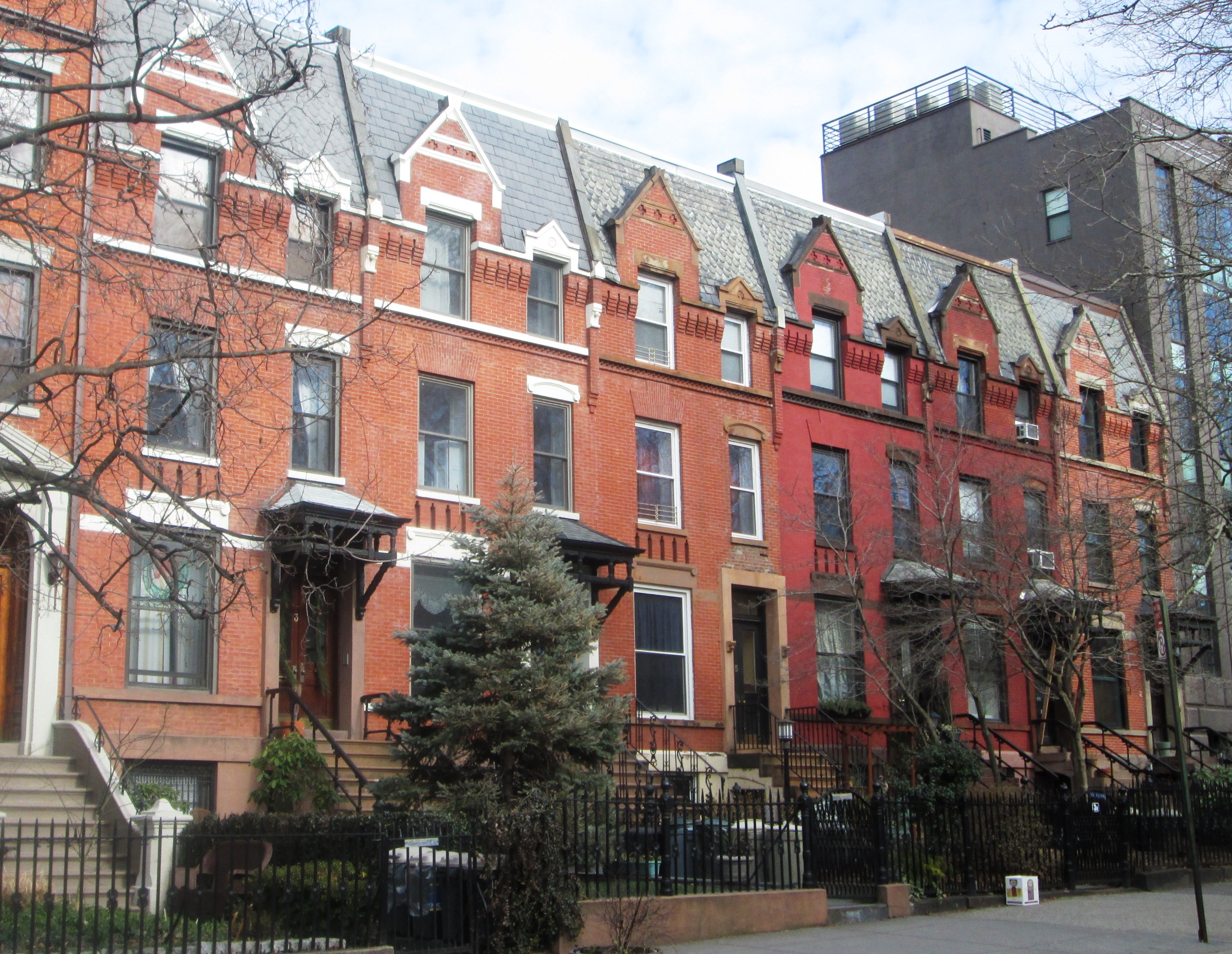 3 (left), 3A, 5, 7, 7A and 9 (right) Second Place between Clinton and Henry Streets in the Carroll Gardens neighborhood of Brooklyn, New York City were built c.1899. (Source: NYC GIS map)